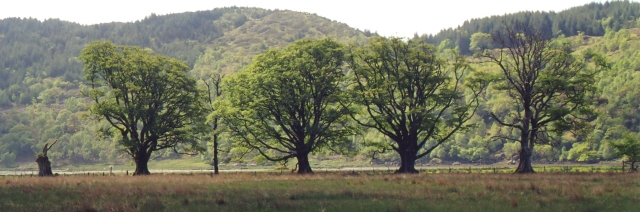 The "Seven Men of Moidart" Well, there were seven originally! These are the survivors of seven beech trees planted about 200 years ago to commemorate the seven men who accompanied Bonnie Prince Charlie on his way to raise his standard at Glenfinnan in 1745.